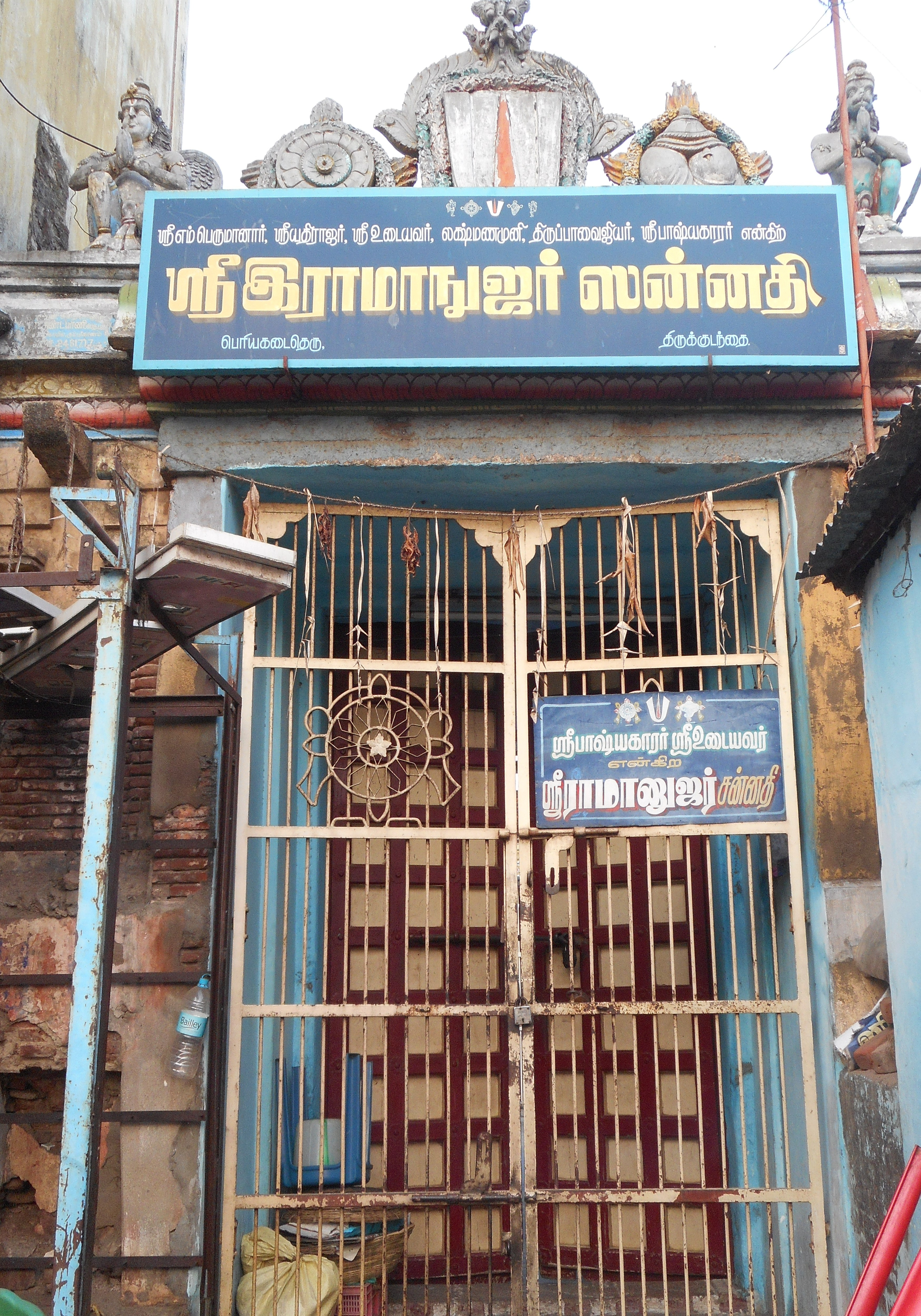 Kumbakonam Udayavar sannidhi கும்பகோணம் உடையவர் சன்னதி